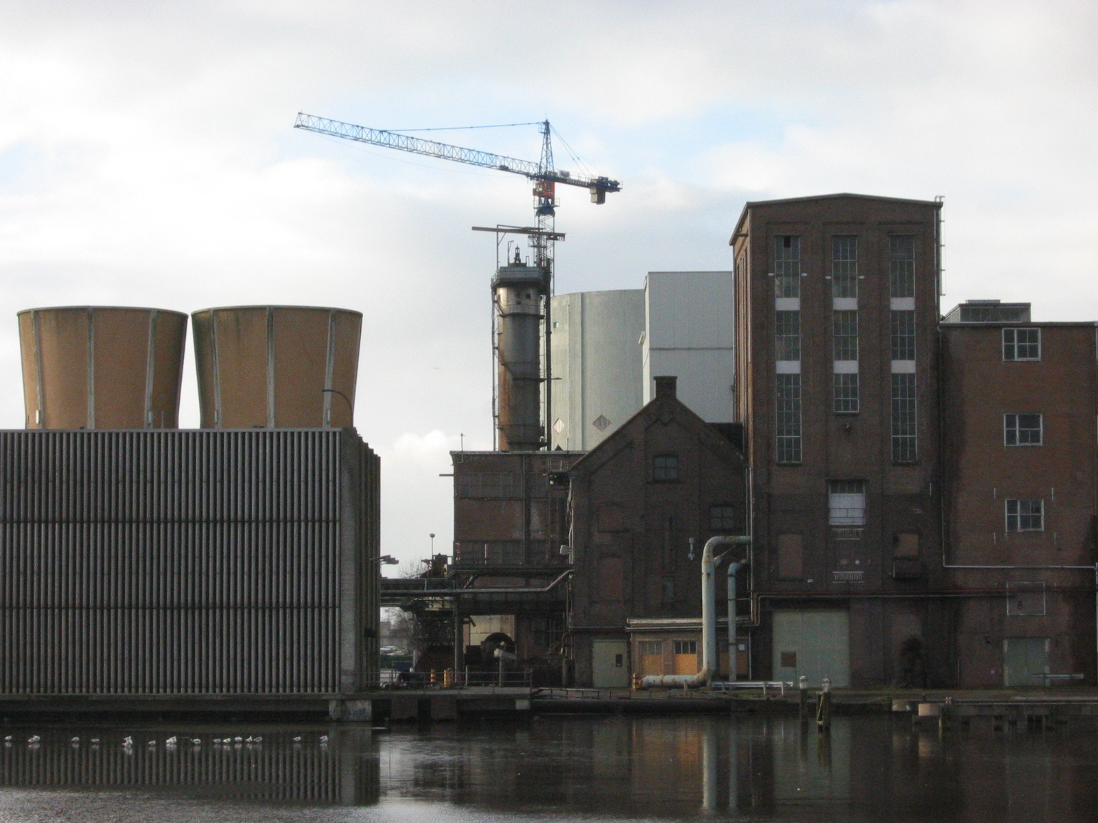 Terrain of the old sugar factory, Halfweg, Netherlands